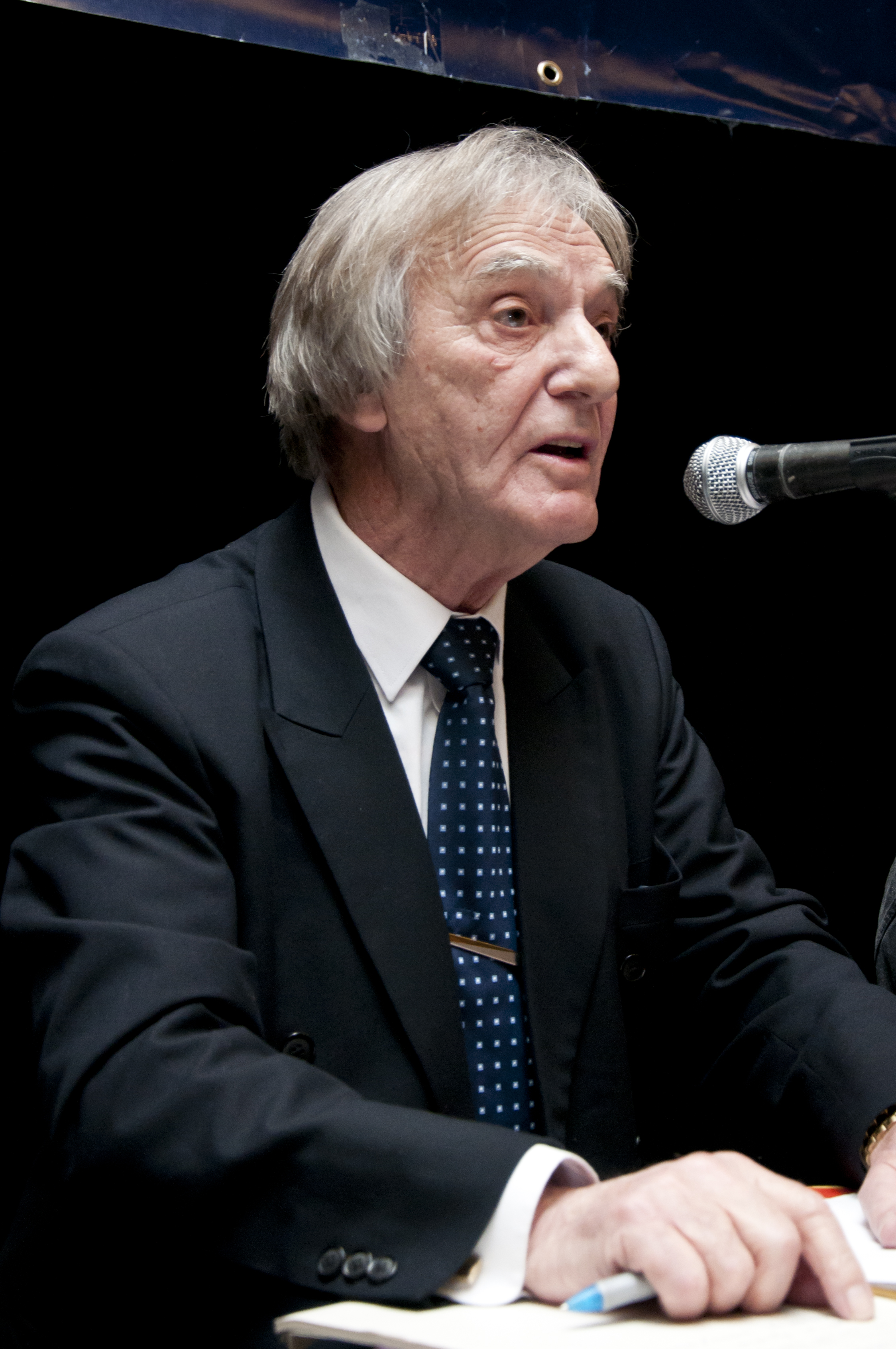 Arne Tumyr representing SIAN (en: Stop Islamisation of Norway) in a debate hosted by Studentersamfunnet i Bergen (en: The Bergen Student Society), at The Academic Quarter in Bergen, on 2nd of February 2012.